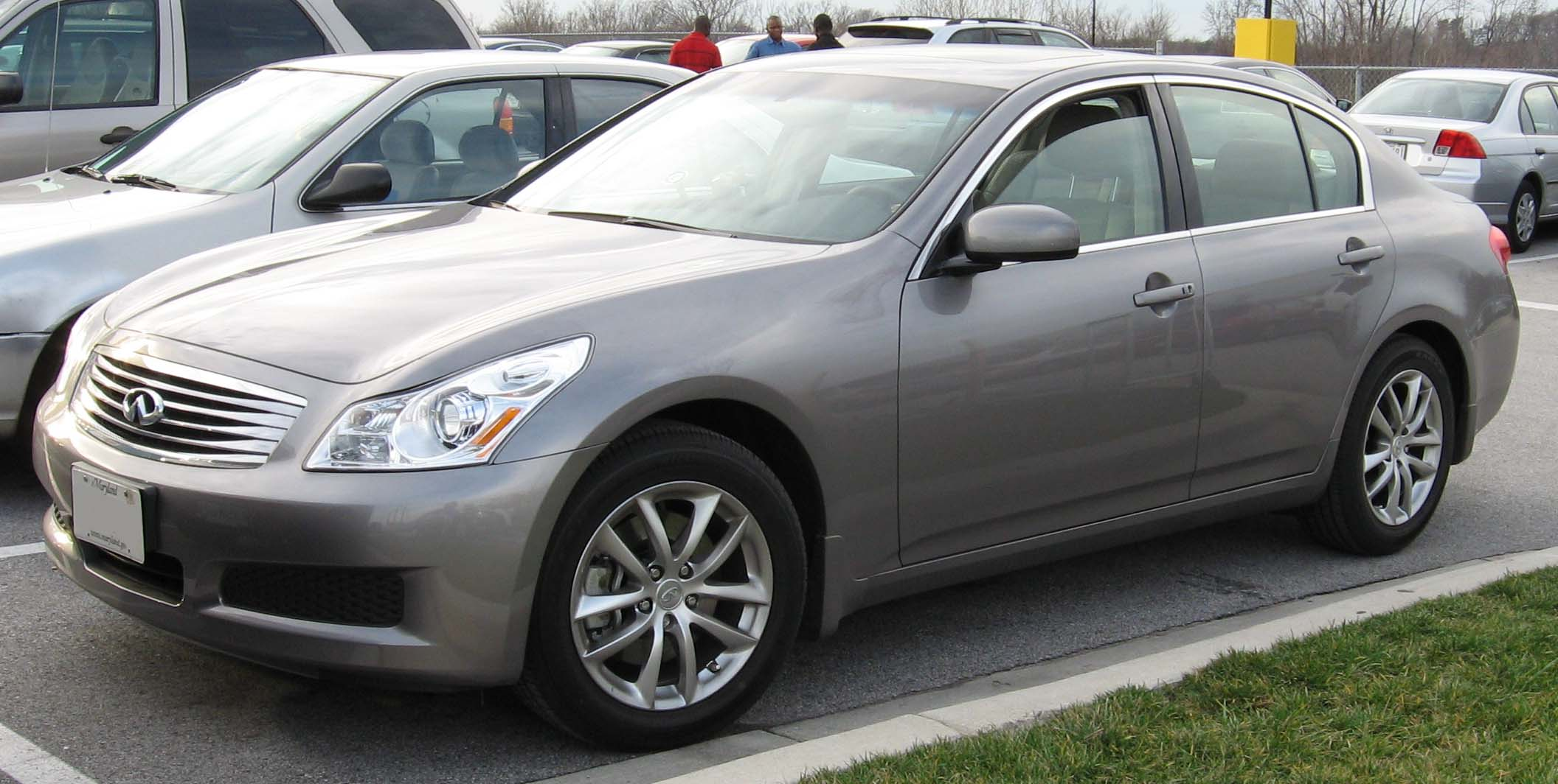 2007 Infiniti G35 photographed in USA.